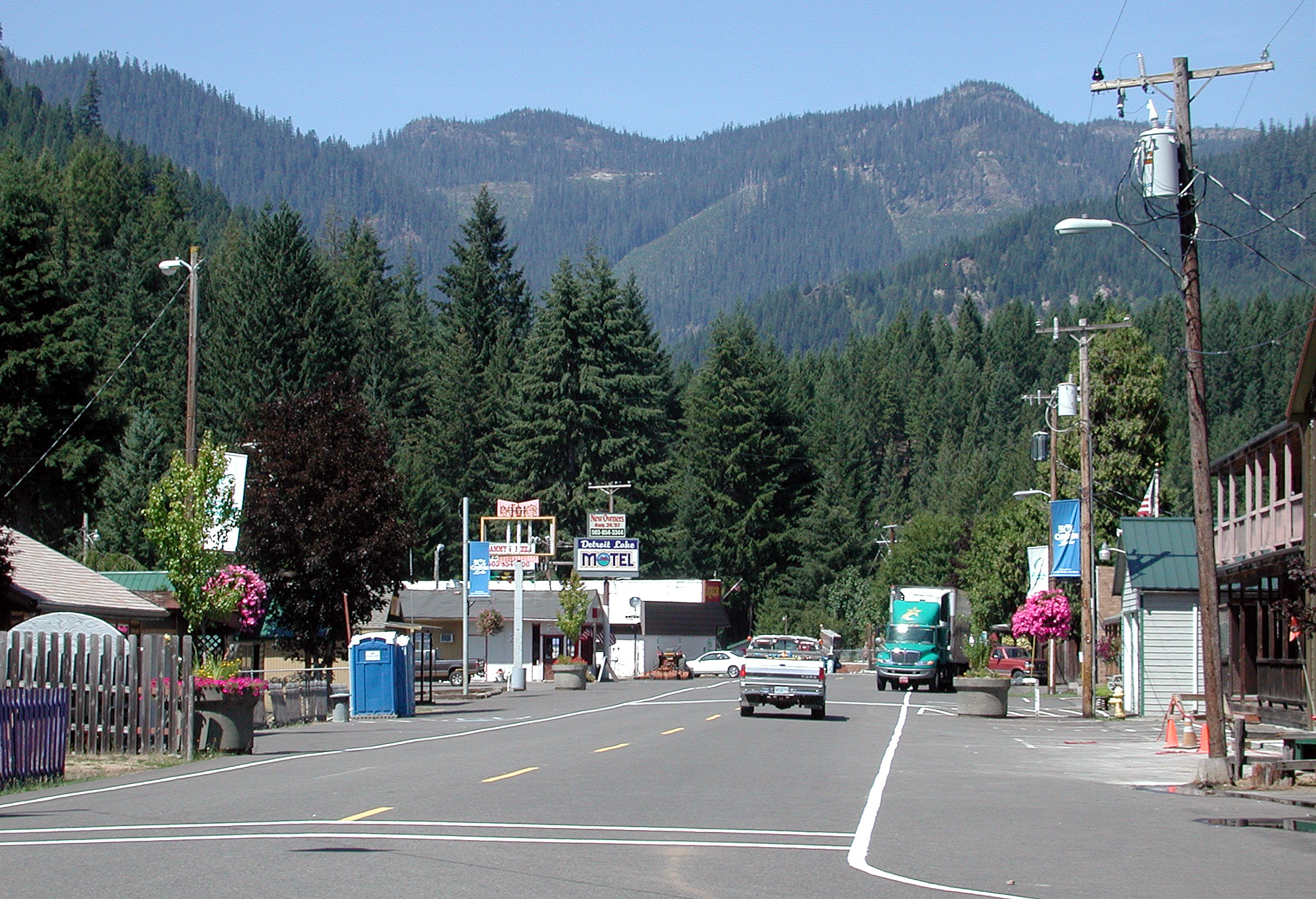 Downtown Detroit, Oregon, United States. View is to the west along Detroit Avenue.